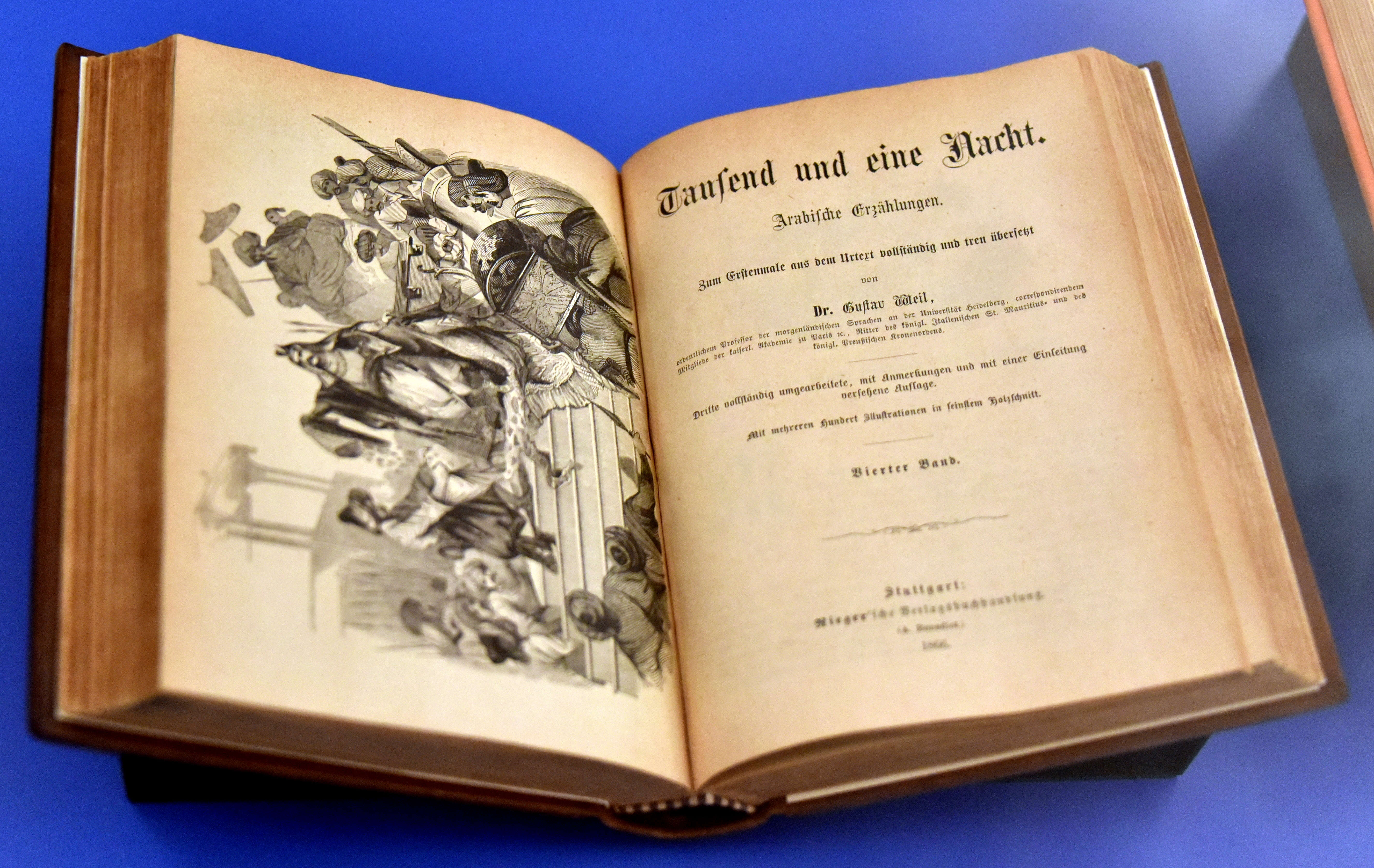 Arabian Nights (Tausend und Eine Nacht, Arabische Erzahlungen) translated into German by Arabic language scholar Gustav Weil. Vol 4, 1866 CE, Stuttgart. It was displayed at the Neues Museum in Berlin, Germany, Exhibition of "Cinderella, Sindbad & Sinuhe, Arab-German Storytelling Traditions", April 18, 2019, to August 18, 2019. Berlin State Library, Prussian cultural heritage, Children's and youth book department (Staatsbibliothek zu Berlin, Preußischer Kulturbesitz, Kinder- und Jugendbuchabteillung, B IV 1a, 1371-3/4 .